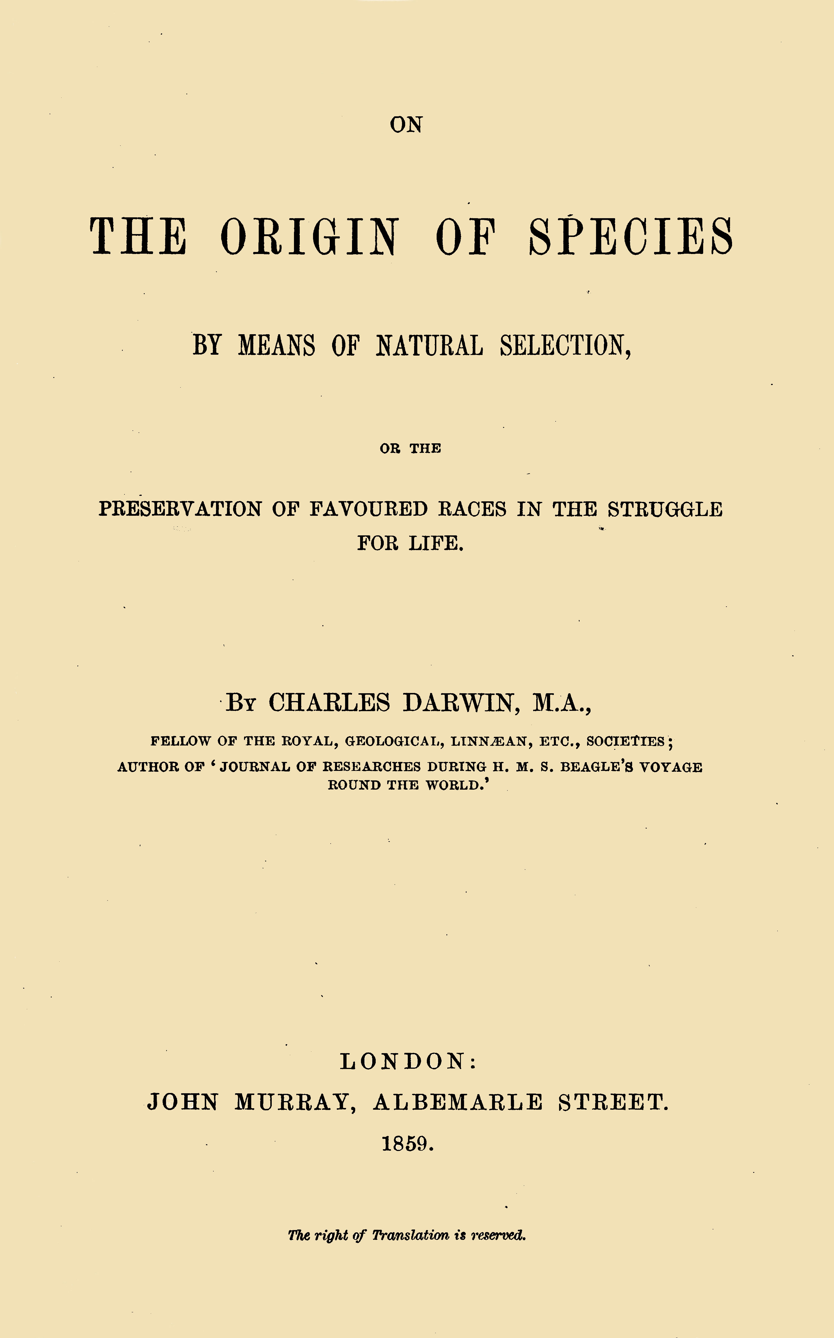 Origin of Species. 1st edition, 1859